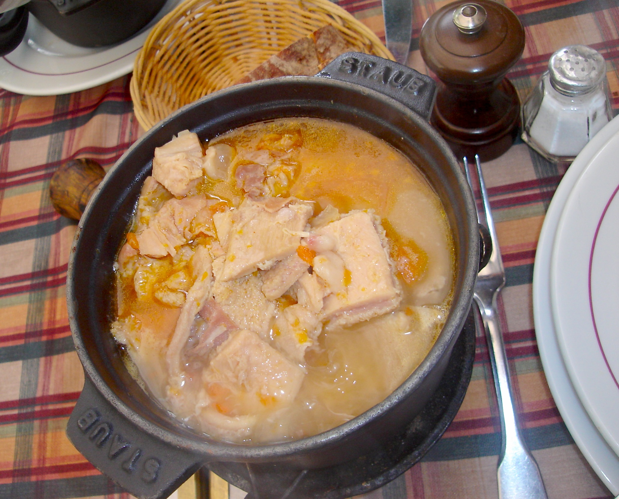 Tripe done Caen style. Whatever that means. :) I had to order it as I like tripe and had to see what the French could do with it. Caen style turned out to be a tomatoey soup which suited the tripe very well. Big ups to the folks of Caen.